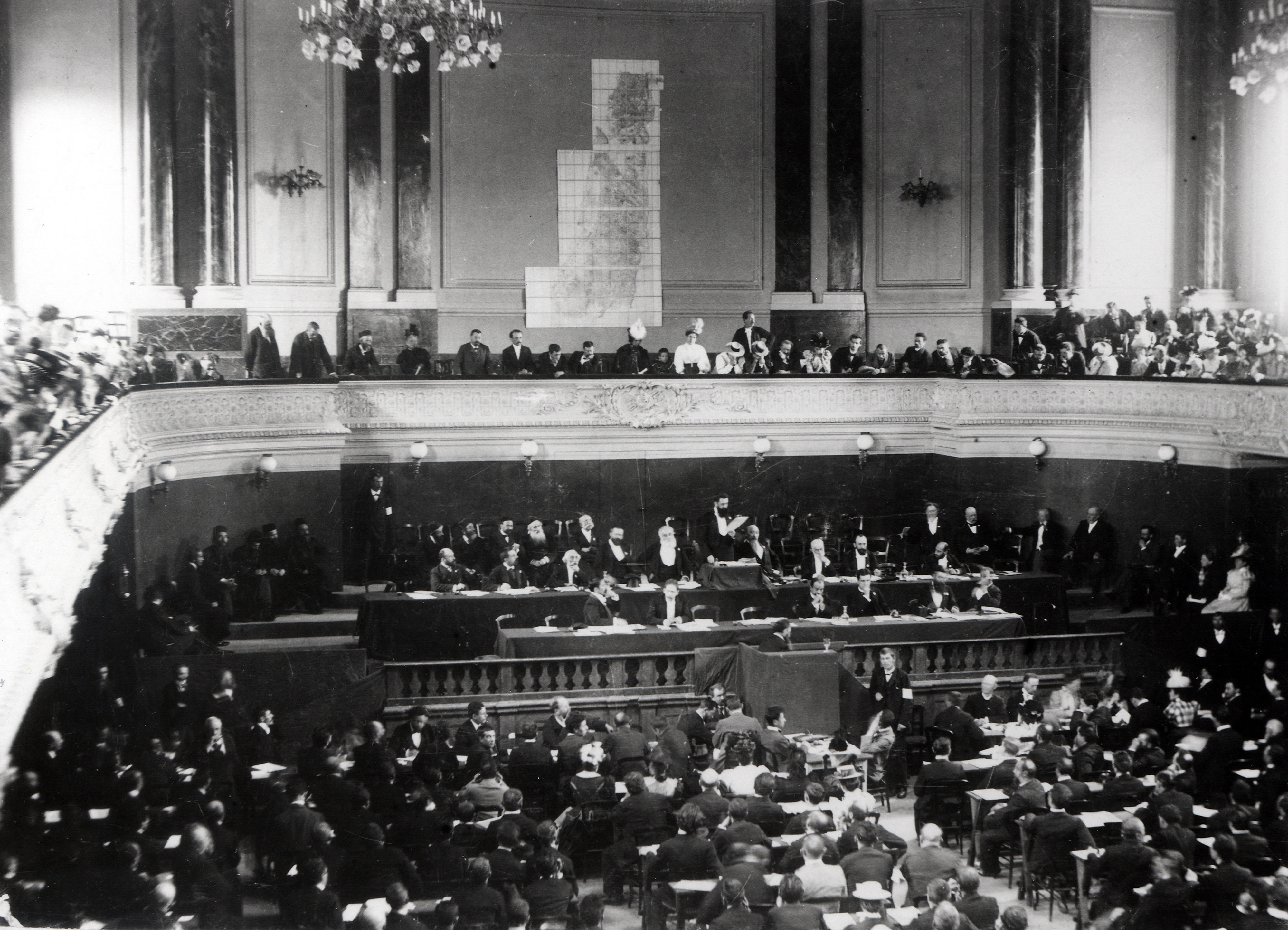 THEODOR HERZL ADDRESSING THE FIRST OR SECOND ZIONIST CONGRESS IN BASEL, SWITZERLAND IN 1897-8. תאודור הרצל נואם בקונגרס הציוני הראשון או השני בבזל - שנת 1897-1898